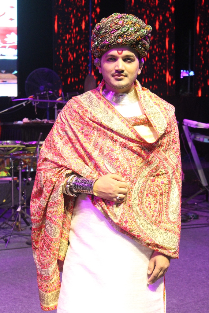 this file is photo of anchor Girish Sharma at Thane Raas Rang 2019 Garba event. This is his Stage Photo before hosting the event. Girish Sharma Anchor is in his traditional Outfit in this picture